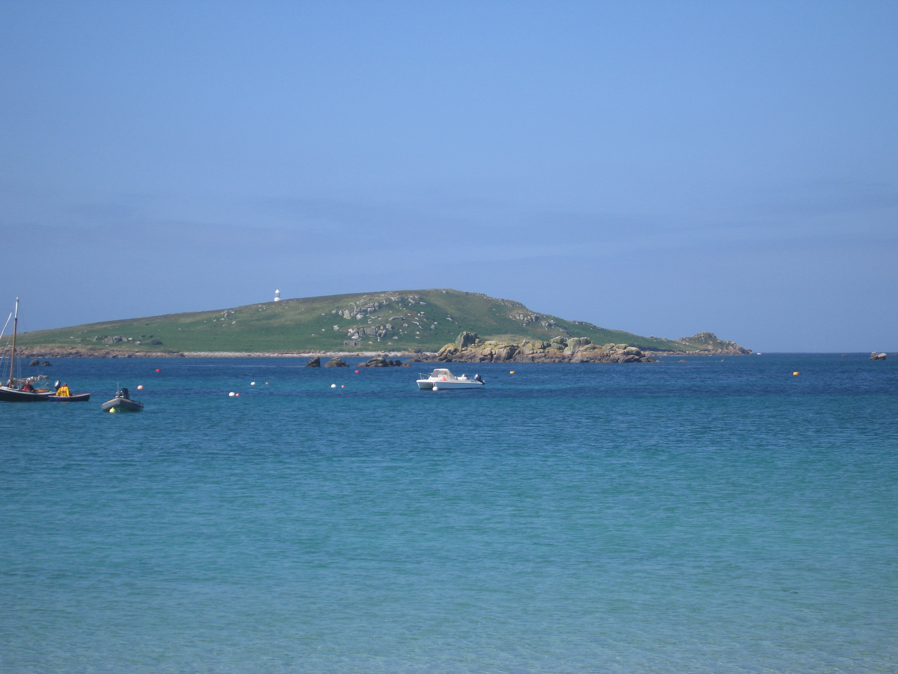 Looking across to St Helens from Tresco.